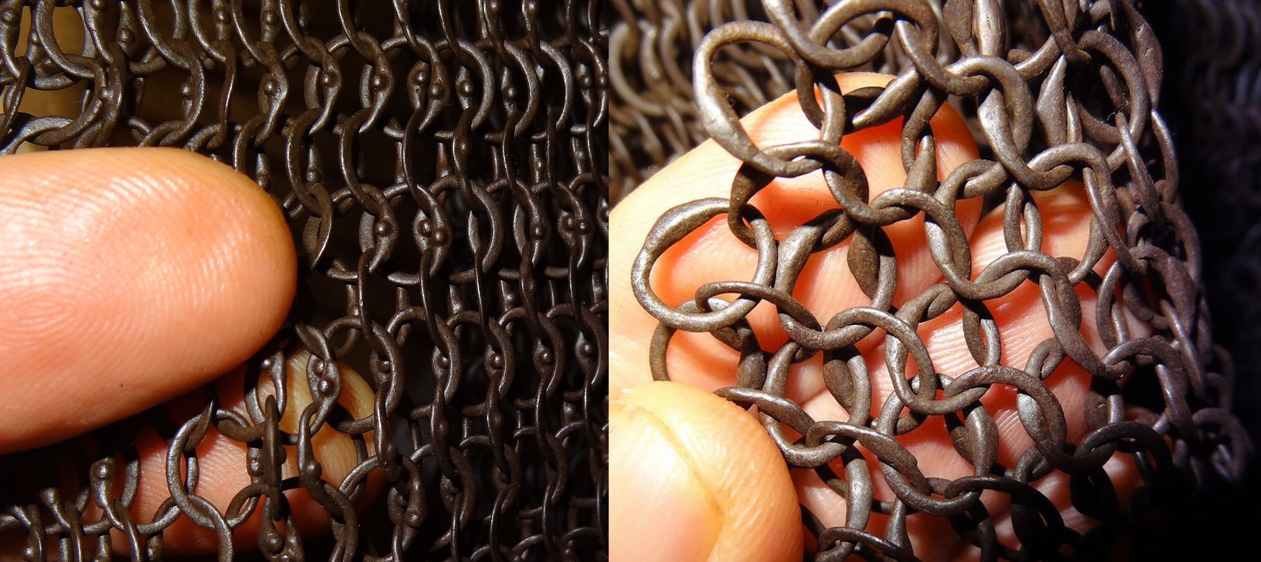 European riveted mail hauberk, detailed view of the front side of the links (lt) and the back side of the links (rt).